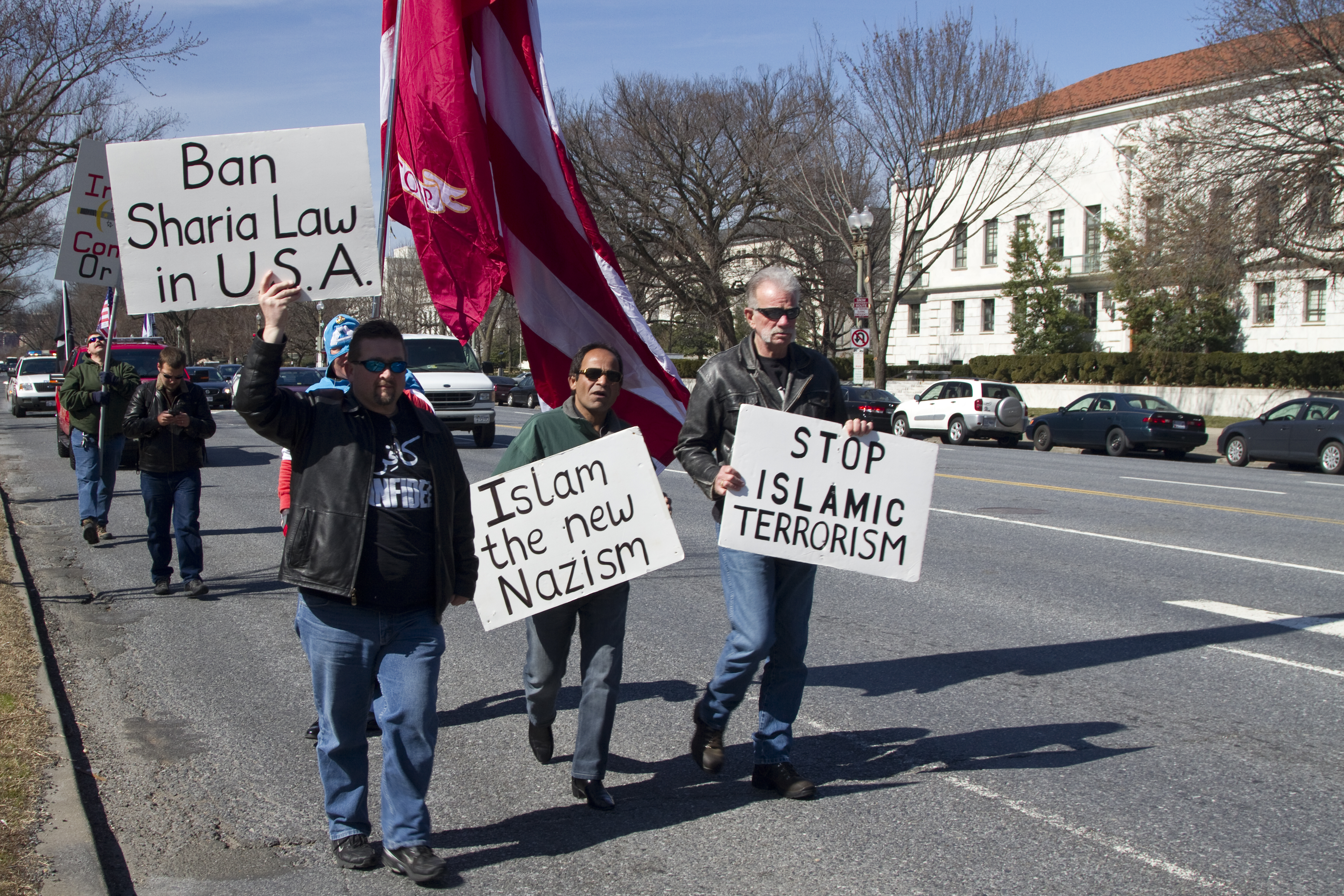 Pastor Terry Jones' March and Counter-protest in DC, March 3 2011.